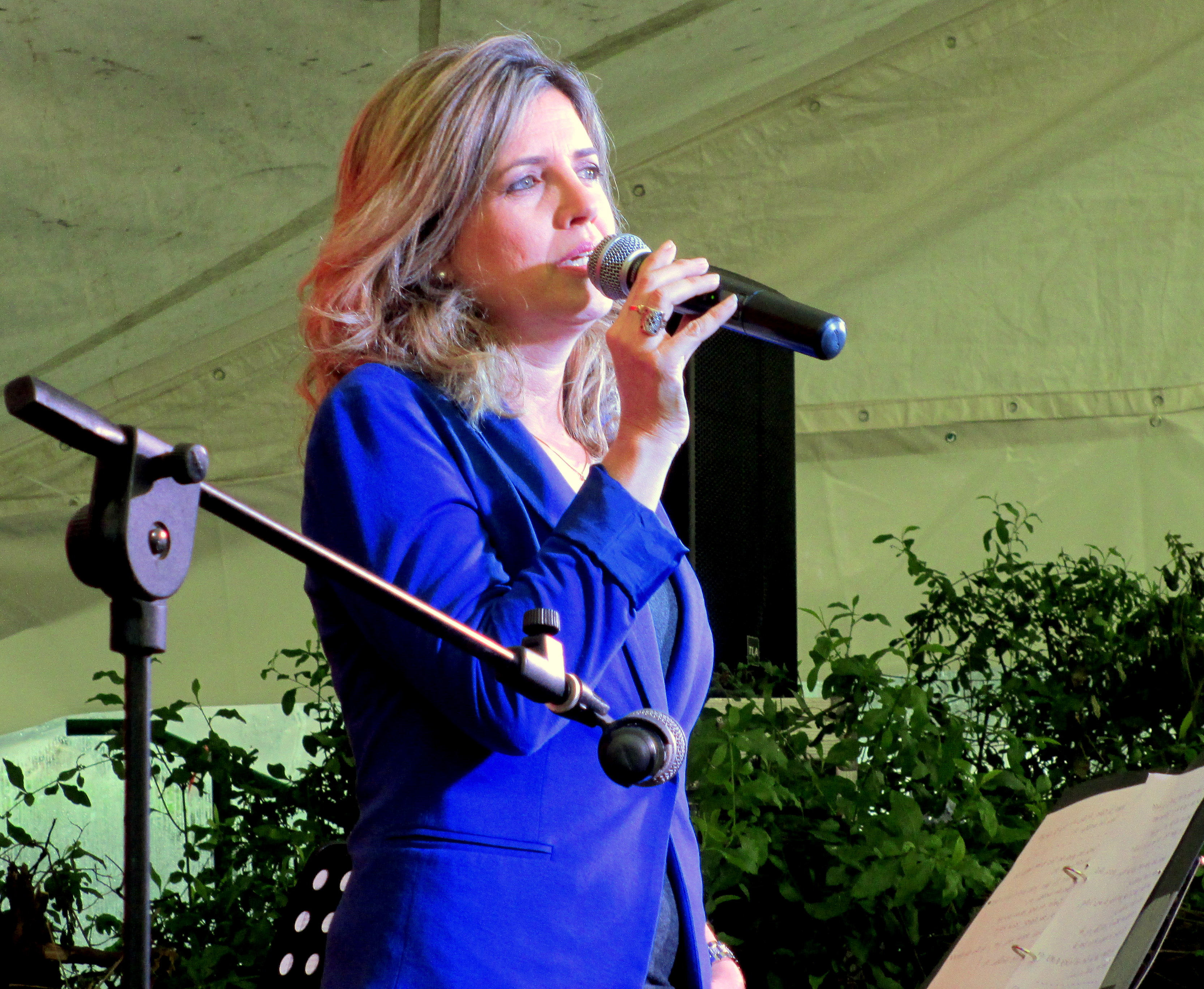 Israeli actress Rama Messinger השחקנית רמה מסינגר בטקס זיכרון לגרי בילו בבית הספר לאמנויות הבמה "בית צבי"